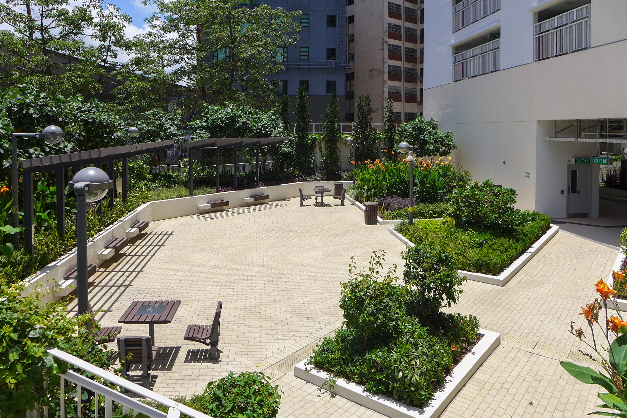 Long Ching Estate Tai Chi Court